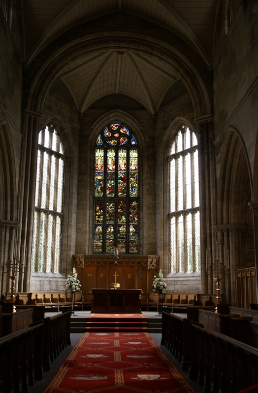 St Michael's Church, Linlithgow, Scotland. Choir.